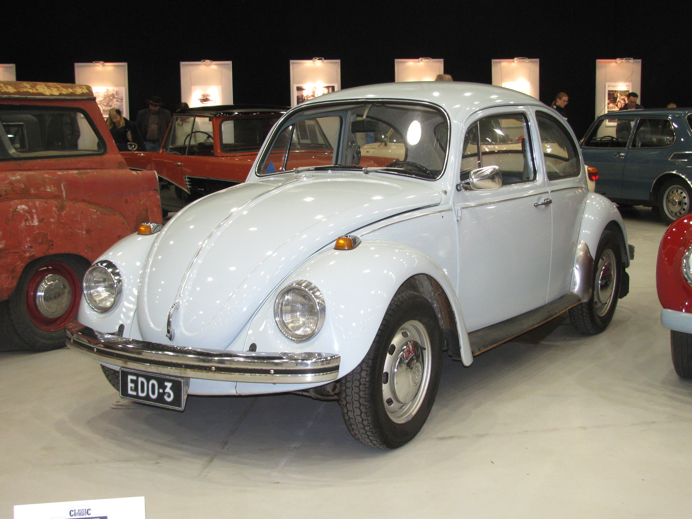 VW Beetle "Wihuri" from 1969. Wihuri was planning of building cars in Finland and made a sample batch of VW Beetles from parts delivered from Germany. The cars were built in Heinola. The Wihuri-built VW's were identical with the German ones apart from the petrol cap with the Wihuri logo. Only few components were made in Finland: windows, batteries, tyres and seat belts. Only the sample batch of 48 cars was built. All of them were blue. Classic Motor Show in Lahti, Finland.